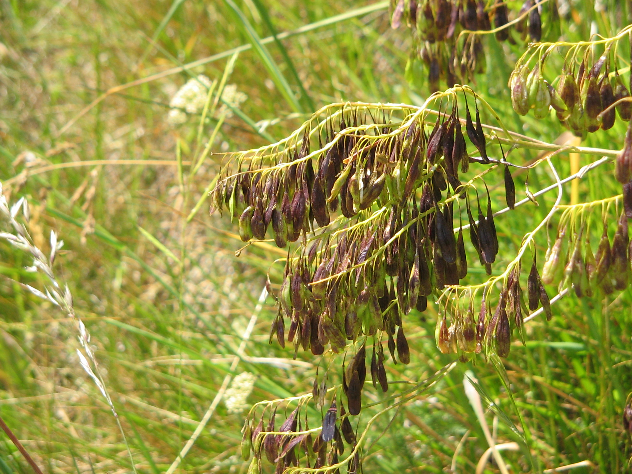 Fruits of Isatis tinctoria